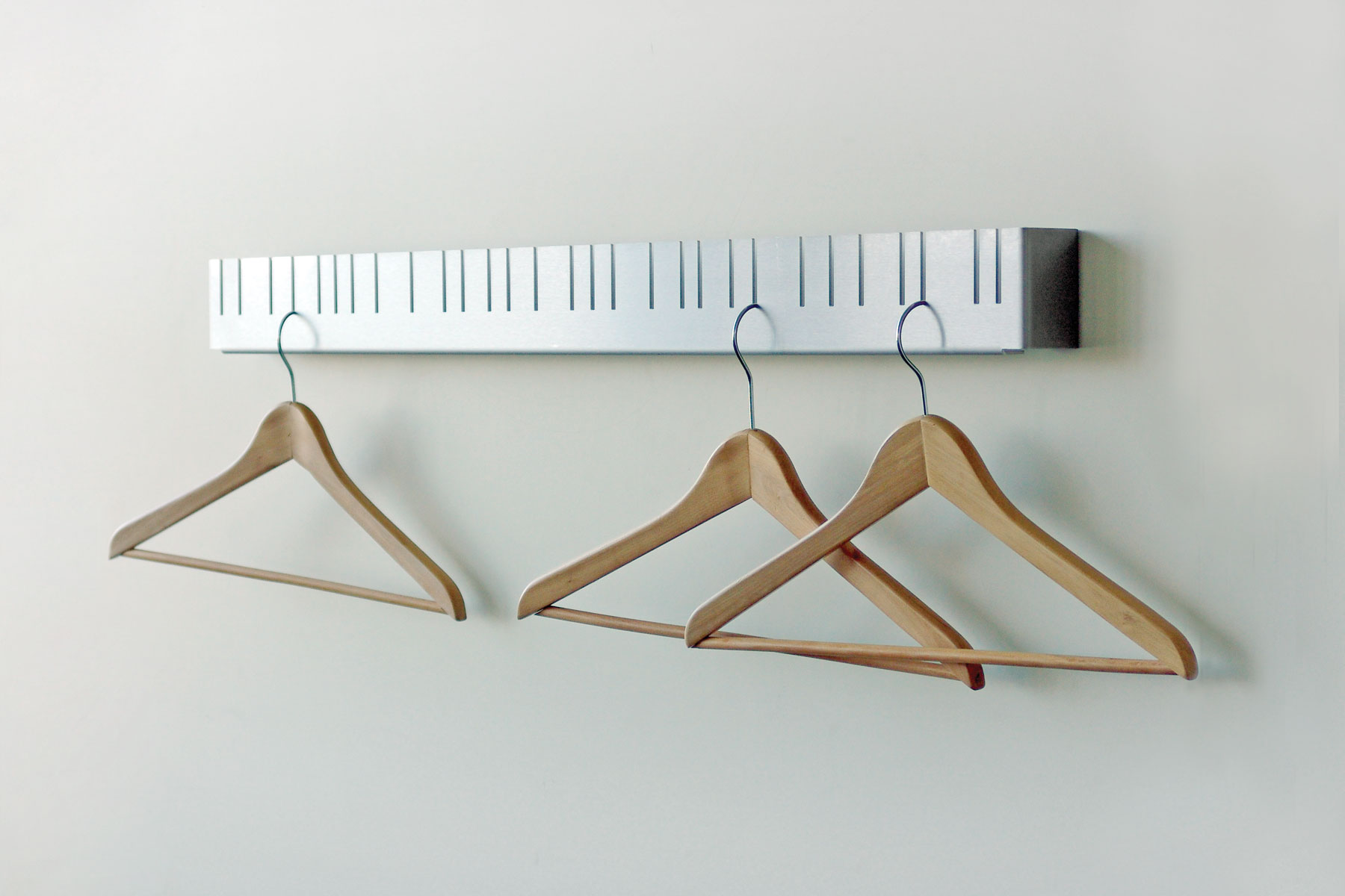 A coat rack available in bespoke length.